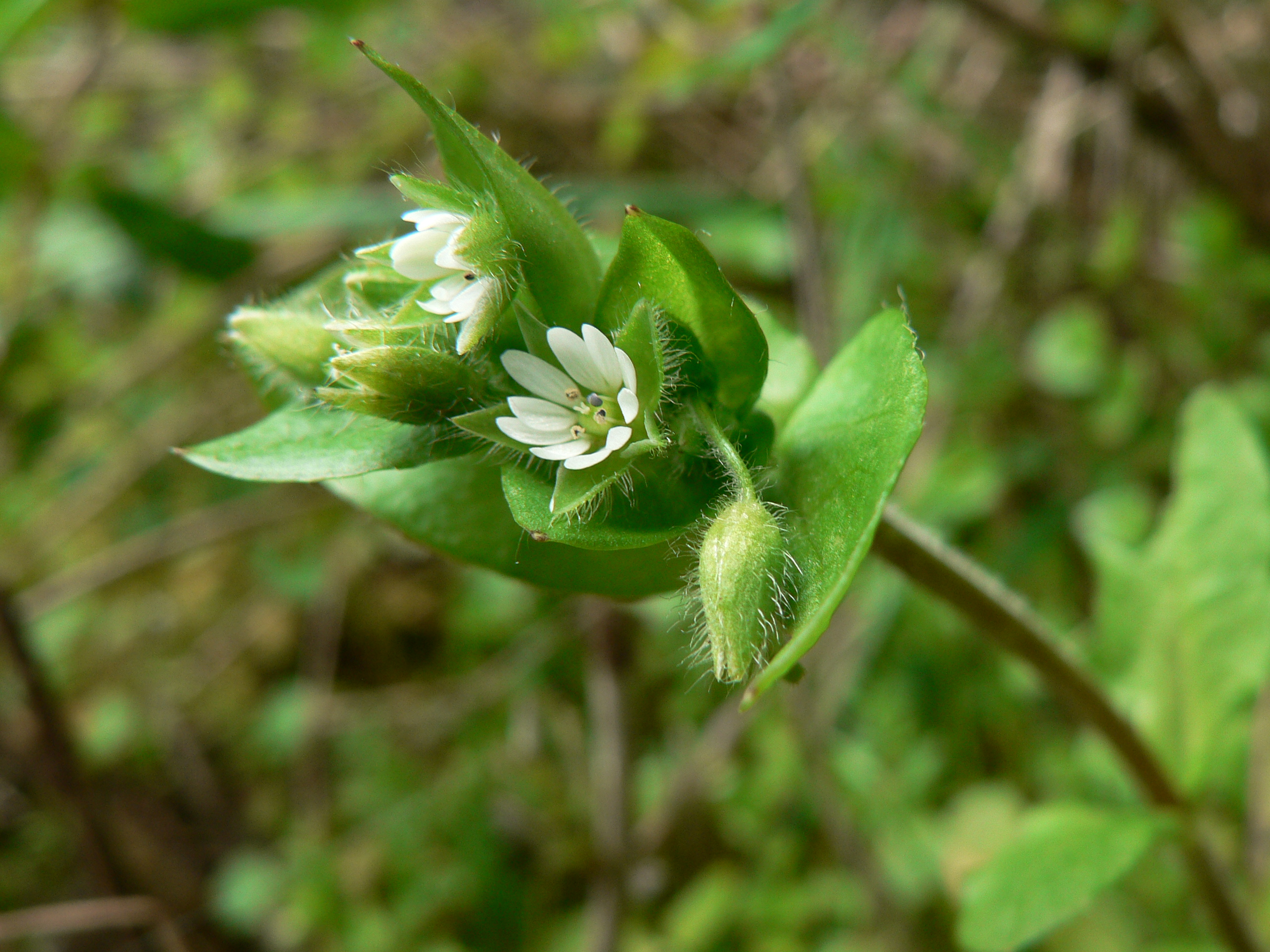 Common Chickweed